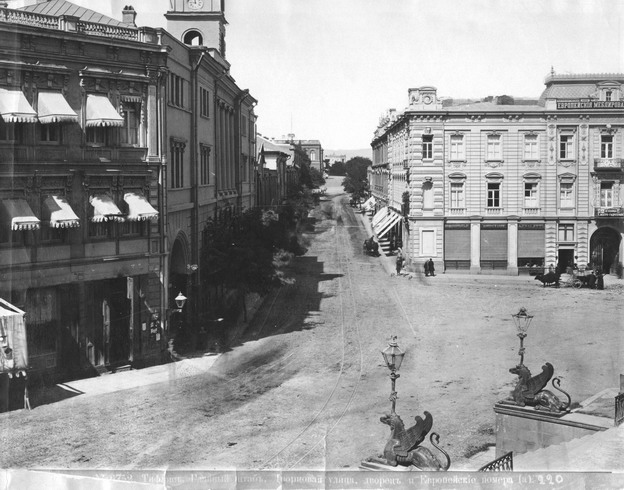 View to Rustavelis Gamziri from Freedom square, Tbilisi XIX c.